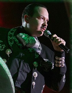 Pepe Aguilar in concert at the Chumash Casino Resort in Santa Ynez, California.